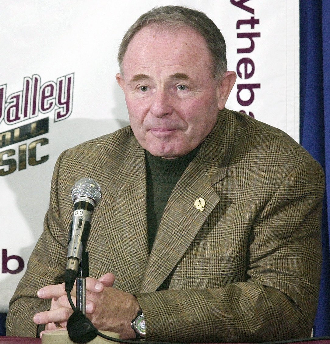 Mr. Fisher DeBerry, the Head Football Coach for the US Air Force Academy|, prepares to answer questions during a press conference, before the Silicon Valley Bowl Football Classic in Spartan Stadium, at San José State University, California (CA). During the Classic, the US Air Force Academy "Falcons" will face-off with the Fresno State University "Bulldogs."